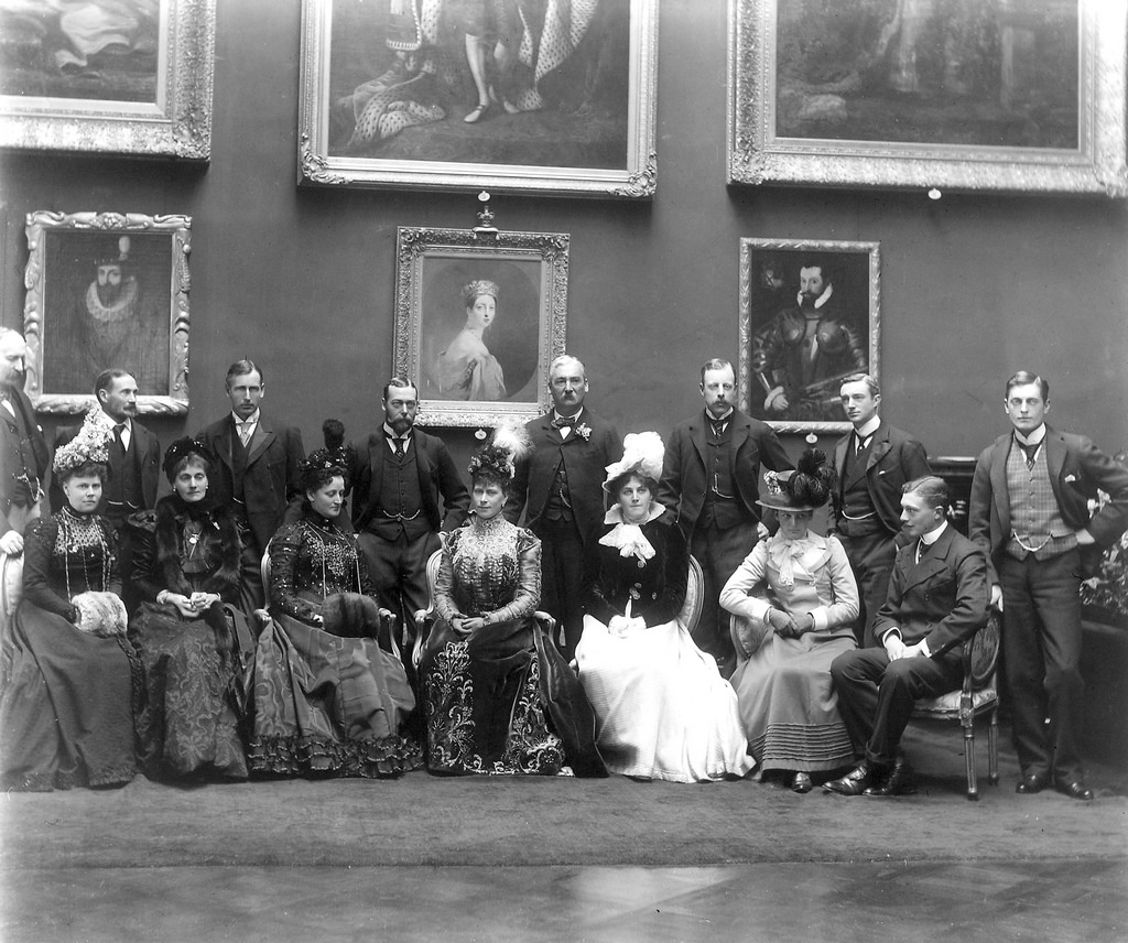 A royal group in Kilkenny Castle. This does capture a royal visit to the Marble City. The man-who-would-be-king (the Duke of York) and family visited the Butler/Ormonde family at their home in Kilkenny Castle in April 1899. While perhaps already on the road to confirmation, DannyM8 helped confirm the sometimes elusive trifecta of who, where, and when. An extract from the Irish Times summarises this "at home" gathering in the castle's noted picture gallery, and lists those present as the: - Duke & Duchess of York (later George V & Queen Mary) - Marquess & Lady Ormonde (James Butler & Elizabeth Grosvenor) - Two other Ormondes (likely the Marquess' daughter & brother) - Marshal & Lady Roberts (Frederick Roberts & Nora Bews) - Viscount & Viscountess De Vesci (John Vesey & Evelyn Charteris) - Lady Eva Dugdale (later Lady of the Bedchamber) - Earl of Ava (Hamilton-Temple-Blackwood d.1900) - Sir Charles Leopold Cust (baronet) - Sir Francis De Winton - Mr J. T Seigne JP (officer of Ormonde's estate?) - and "Mr Moncrieffe" We even see forebears of both the visitors and the hosts in the portraits to the rear... Photographer: A. H. Poole Studio Photographer Collection: Poole Photographic Collection